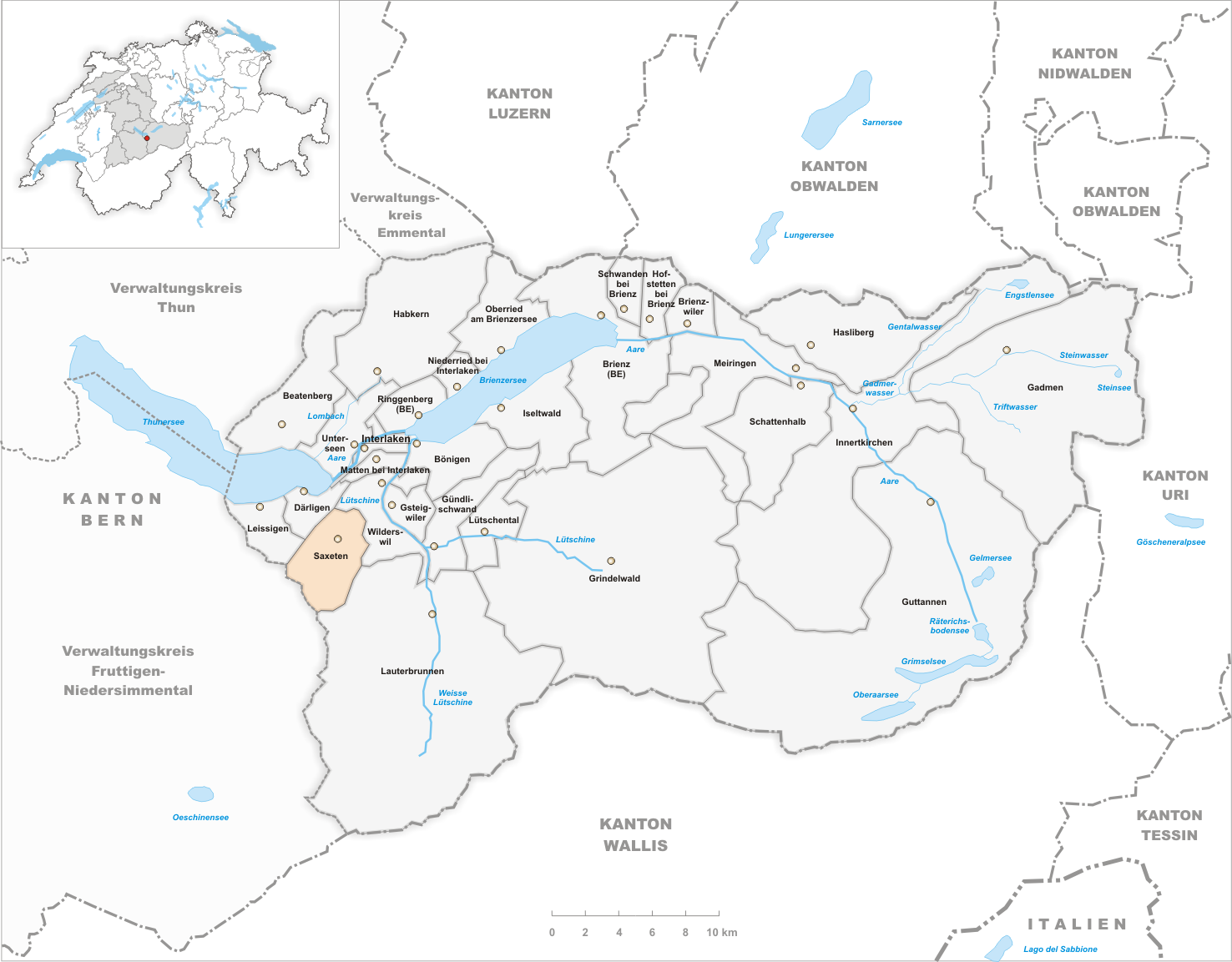 Municipality Saxeten